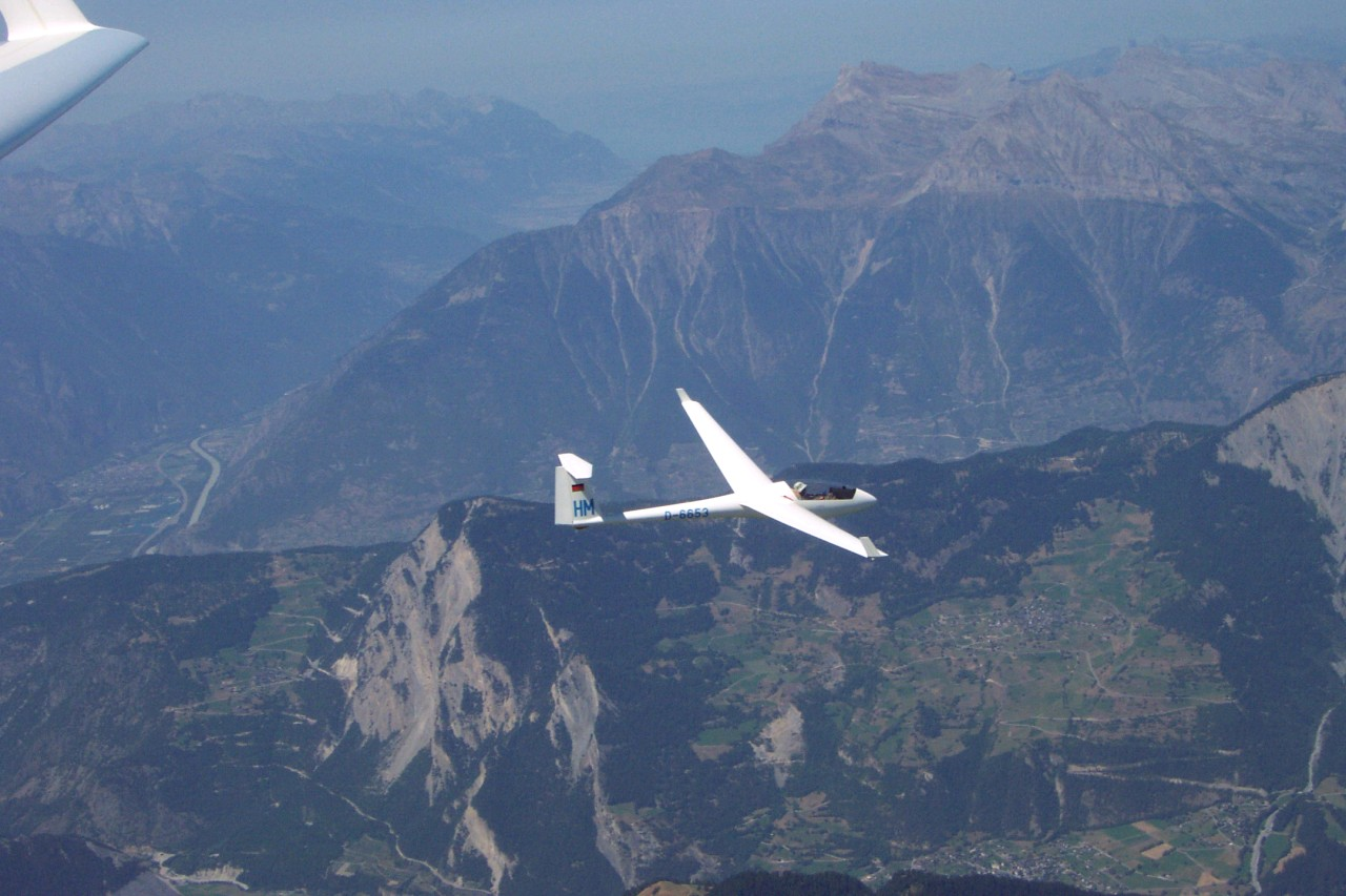 LS3 in the alps